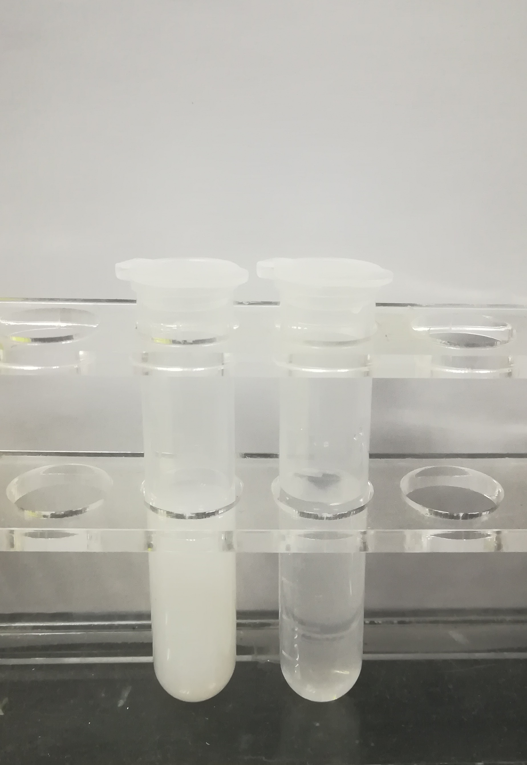 Left: Yttrium acetate reacts with cesium carbonate to form white precipitate. Right: The precipitate dissolves in excess cesium carbonate to form the colorless solution. 中文（中国大陆）: 左图：乙酸钇和碳酸铯反应，生成白色沉淀。右图：该沉淀可以溶解在过量的碳酸铯溶液中，生成无色溶液。